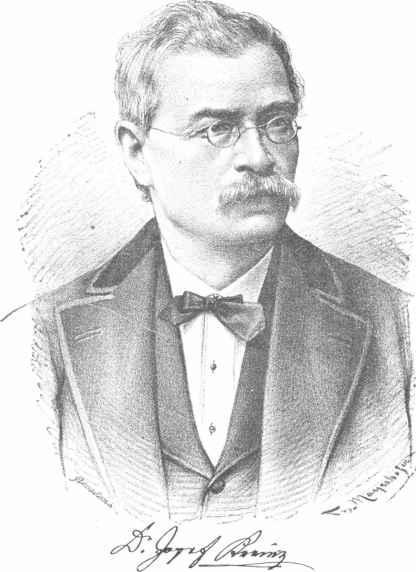 Jožef (Josip) Krajnc (1821-1875), Slovenian jurist